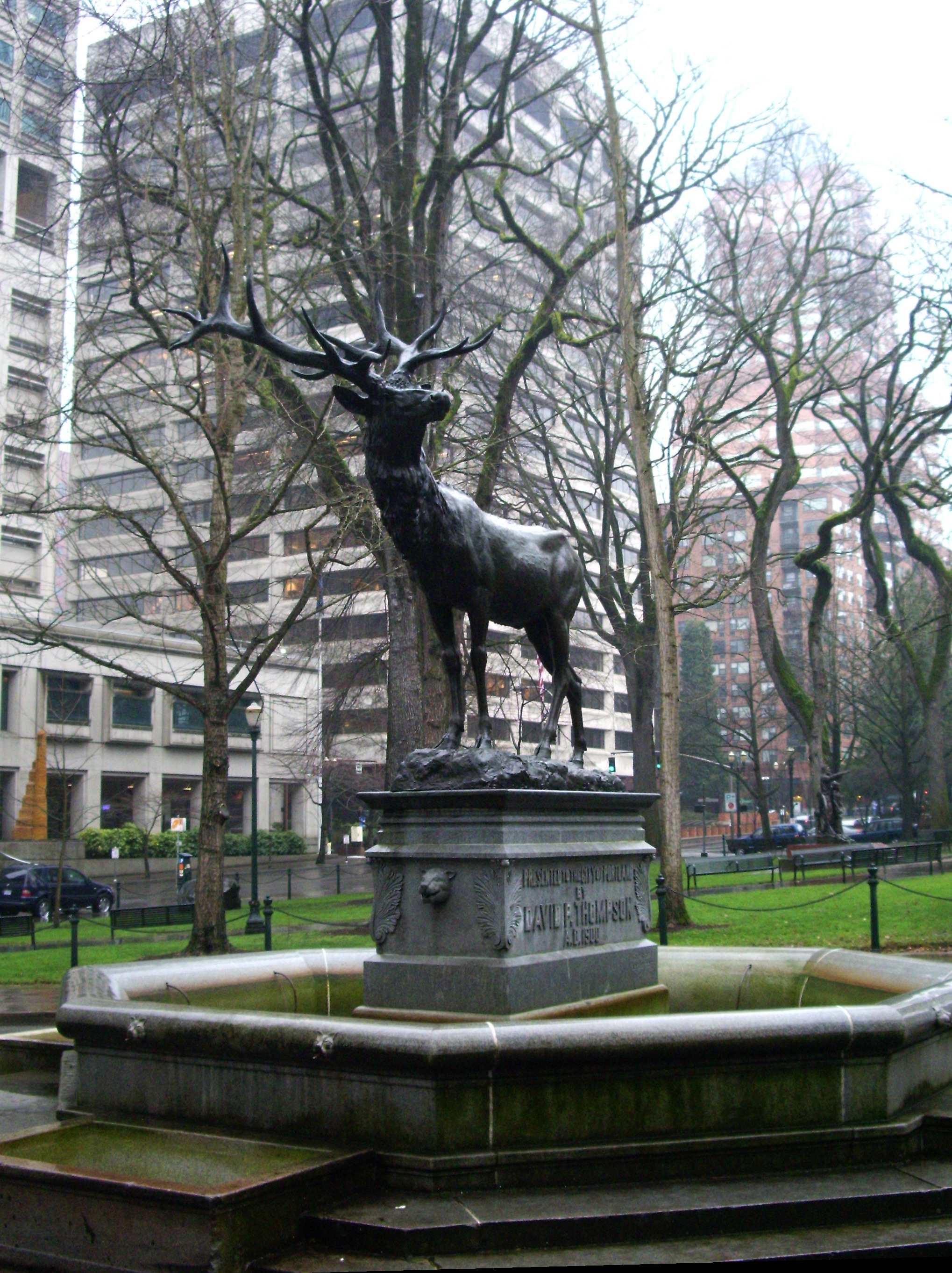 Thompson Elk statue donated to the City of Portland, Oregon by David P. Thompson, situated in the middle of Main Street between the County and Federal Courthouses.